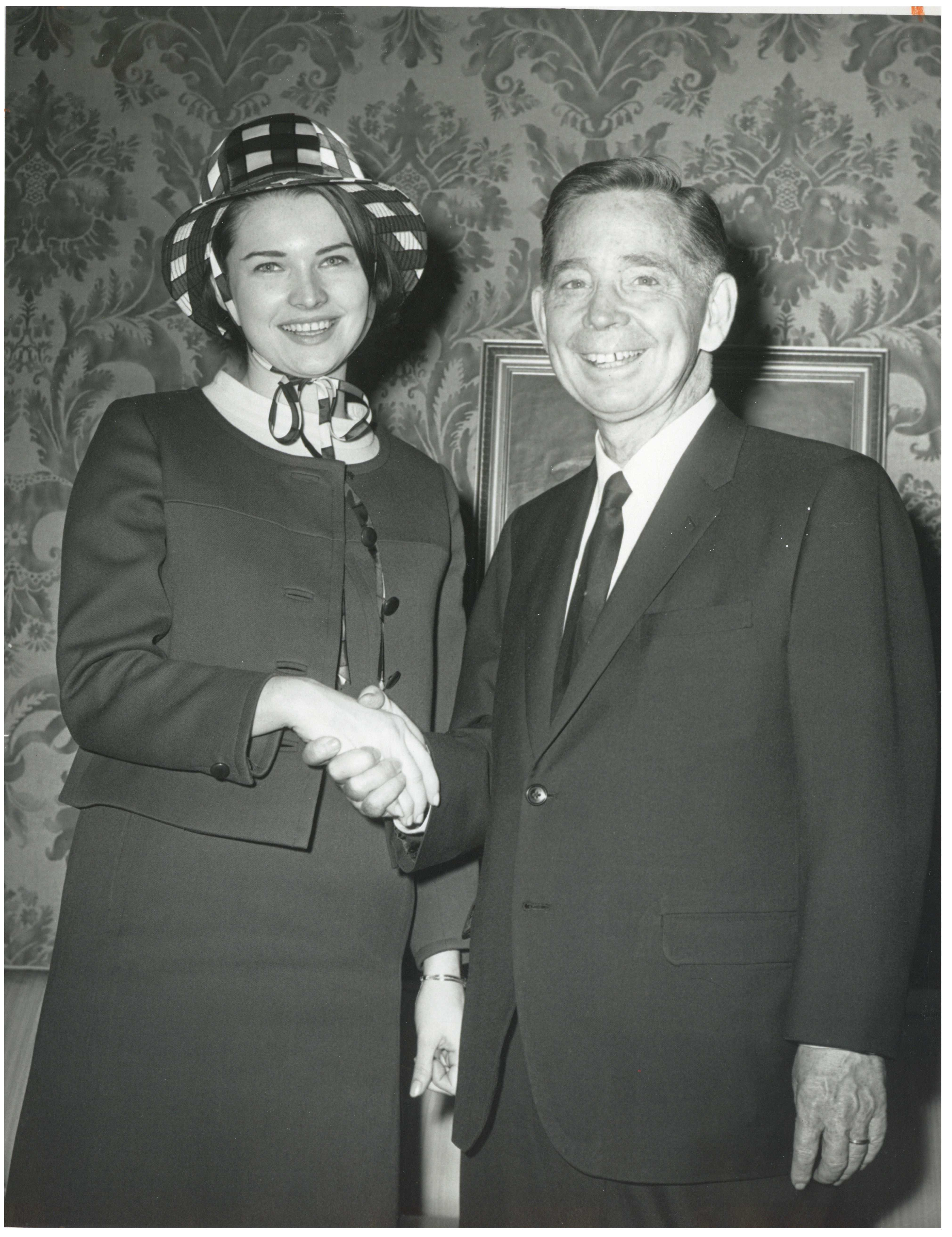 Carl Albert shaking hands with 1967 Miss America, Jane Anne Jayroe of Laverne, Oklahoma.